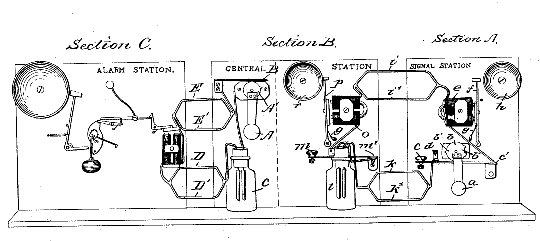 Channing patent US17355A